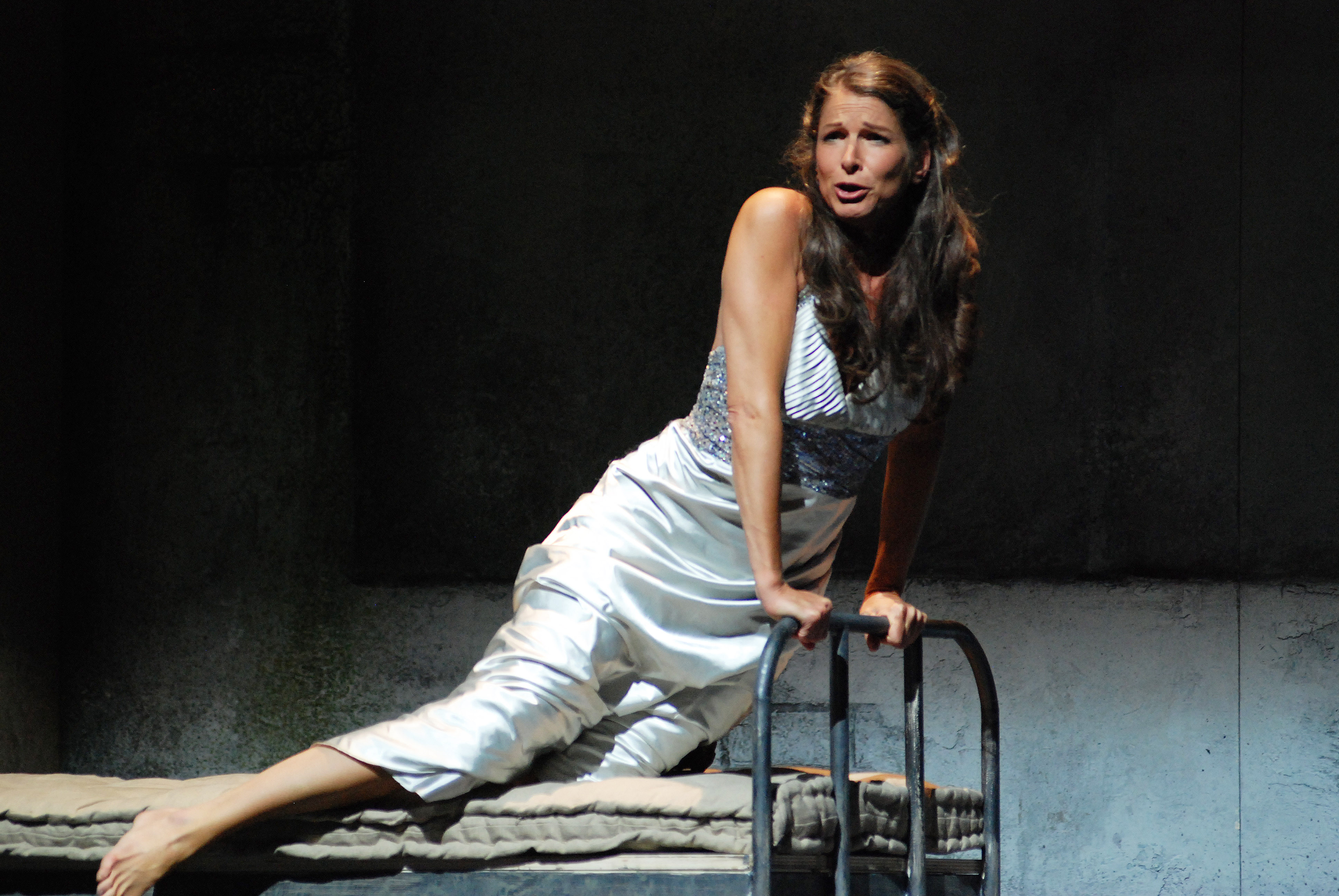 Nicola Beller Carbone as "Färberin" in Die Frau ohne Schatten at Hessisches Staatstheater Wiesbaden. Photo © 2014 by Detlef Kurth